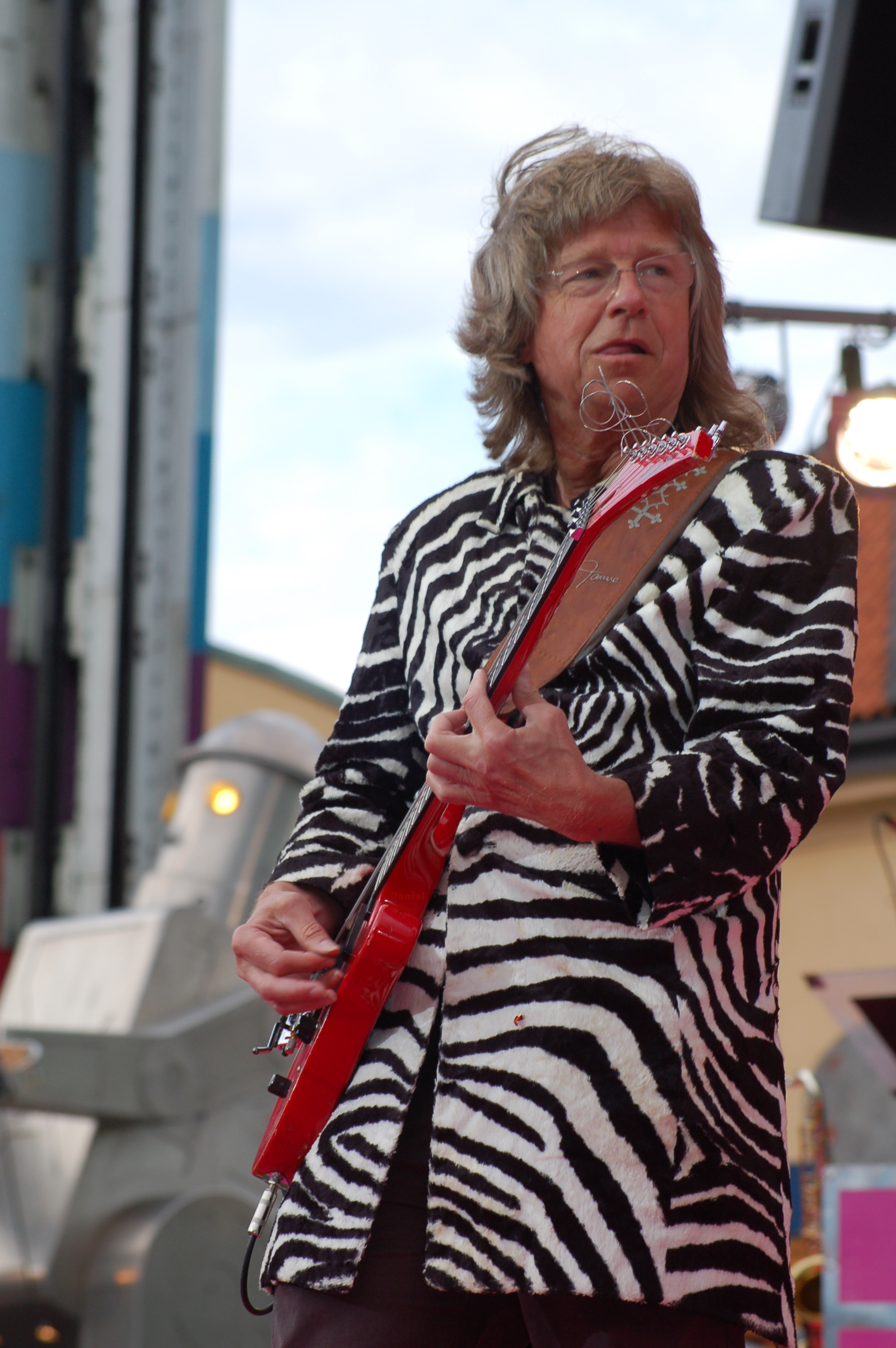 Janne Schaffer at Gröna Lund 2008